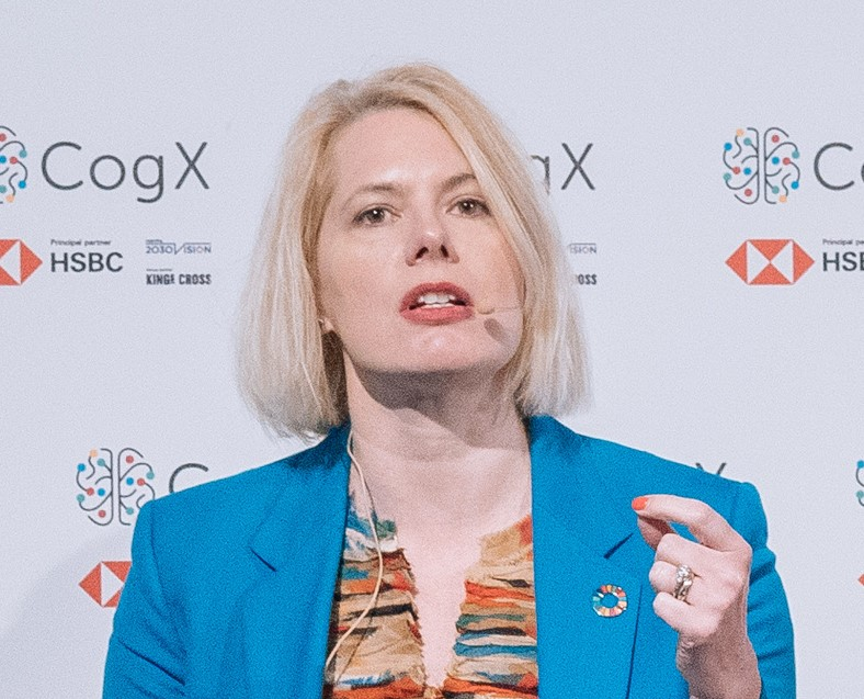 Headshot of Gina Neff against white background at CogX 2019